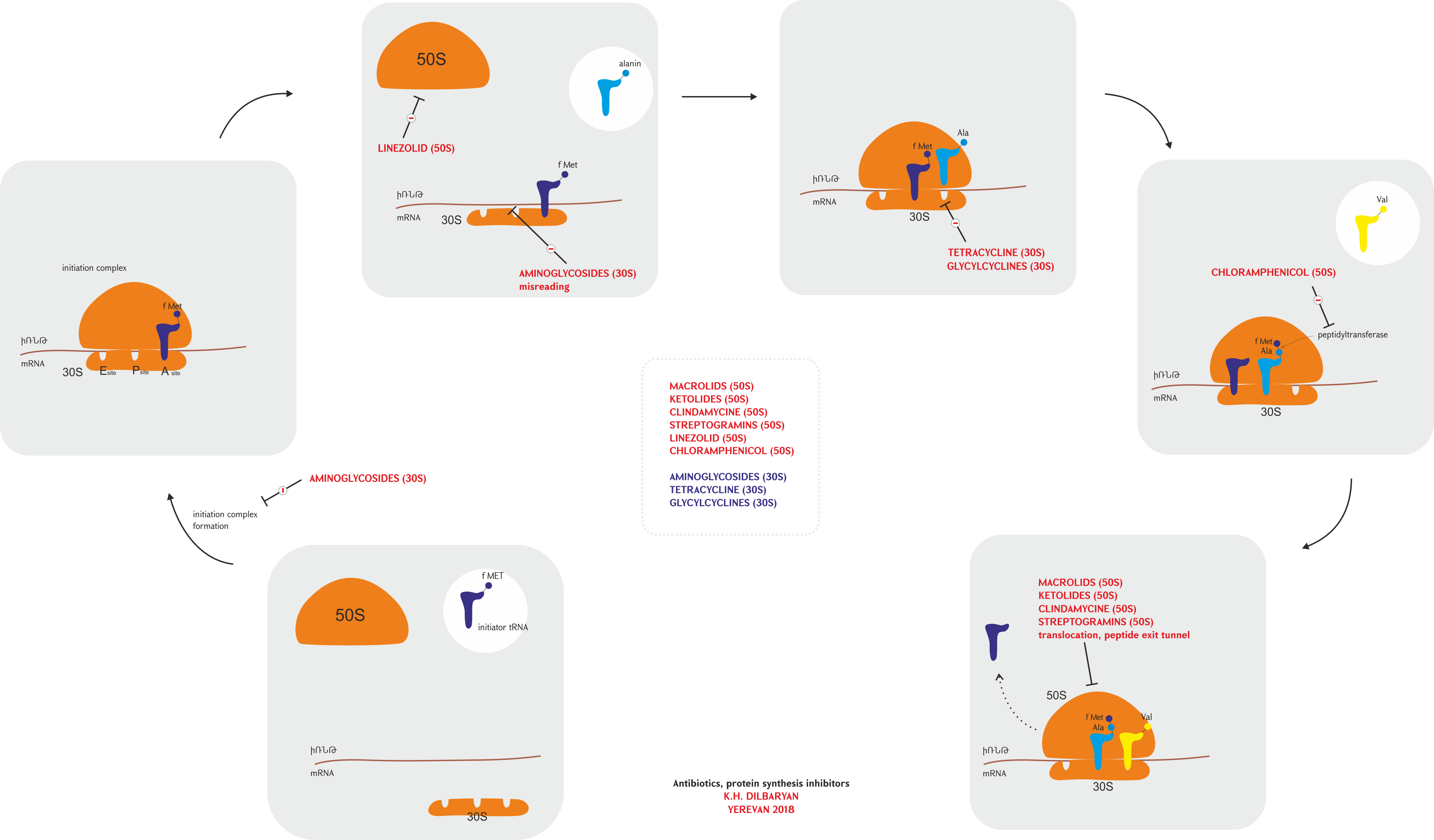 Pharmacological mechanism of protein synthesis inhibitor antibiotics